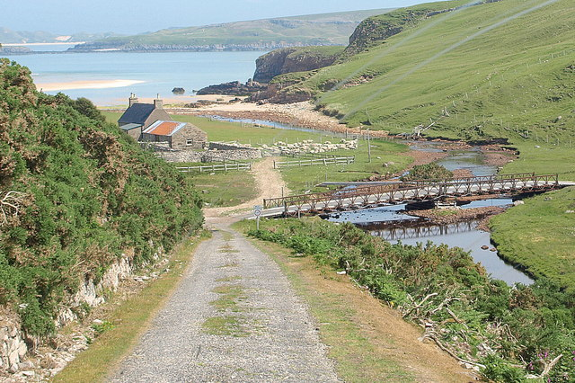 View of Bridge at Daill on Cape Wrath Road Photo taken looking eastwards.